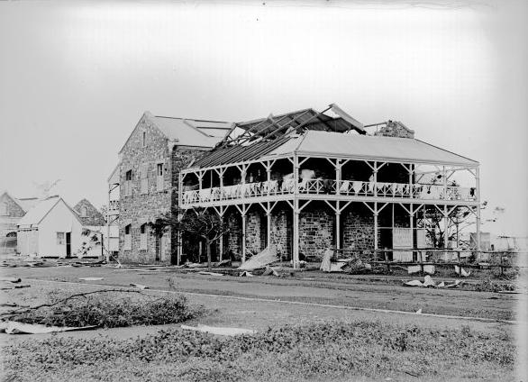 Creator: Florenz Bleeser. Black and white image taken in 1897 of the Victoria Hotel after cyclone damage in 1897. Original held by the National Library of Australia. Part of the Bleeser, Florenz A. K., 1871-1942. Florenz Bleeser collection of photographs of Palmerston (Darwin). Free of copyright restriction because of age.